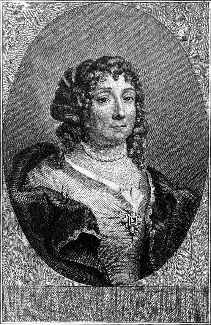 Madeleine de Scudéry, French writer